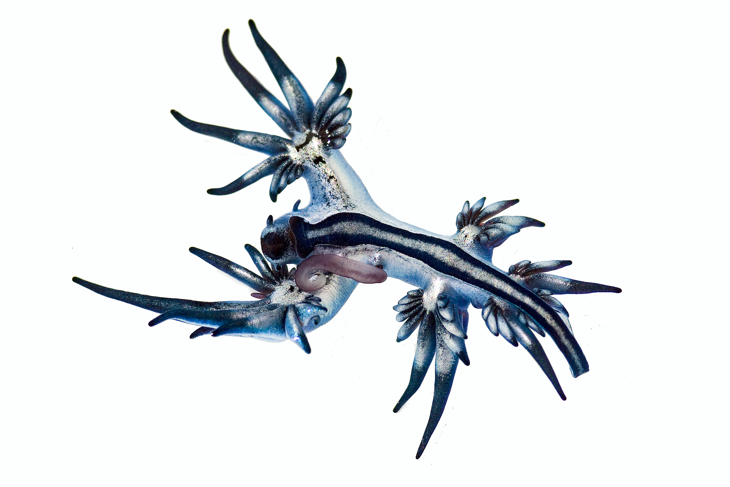 Glaucus atlanticus Order: NUDIBRANCHIA Suborder: AEOLIDINA Family: Glaucidae I found this nudibranch washed up on Surfers Paradise Beach in Queensland, Australia. It was about 35 mm in length. Glaucus atlanticus are often washed up on beaches along with Physalia Jellyfish (a.k.a Portuguese Man Of War or Bluebottle Jellyfish). The reason for this is that Glaucus feed on Physalia and are also at the mercy of the ocean currents and winds. Glaucus feed almost exclusively on Physalia, and it appears that they are able to select the MOST venomous of Physalia's stinging cells (nematocysts) for their own use. They store the nematocysts in special sacs (cnidosacs) at the tip of their cerata. (Cerata are the fan-like appendages.) So, NEVER touch these guys!!